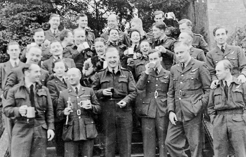 Wing Commander James Pelly-Fry (center) and fellow officers in celebration.